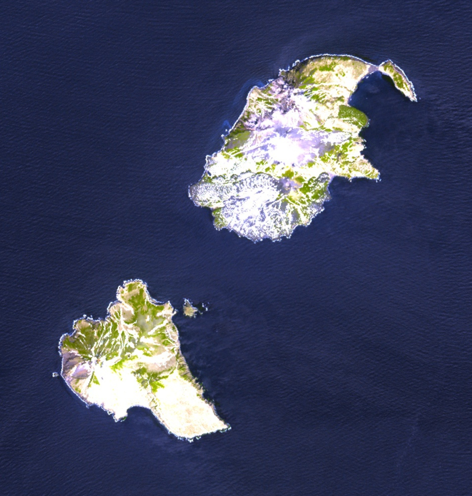 Chirpoi and Brat Chirpoev (Kuril Islands)